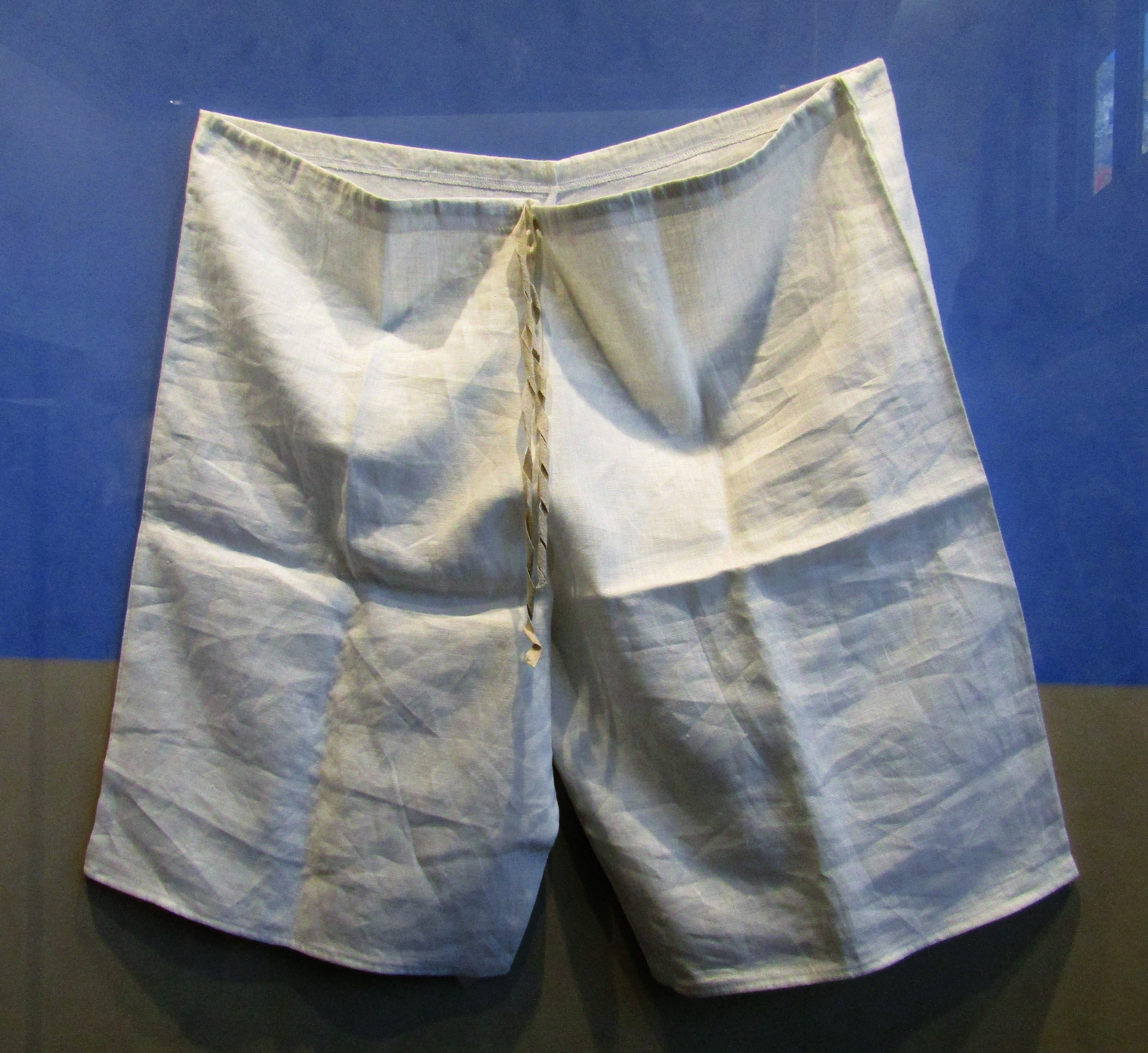 Display of priestly undergarments for the Tabernacle replica at BYU.